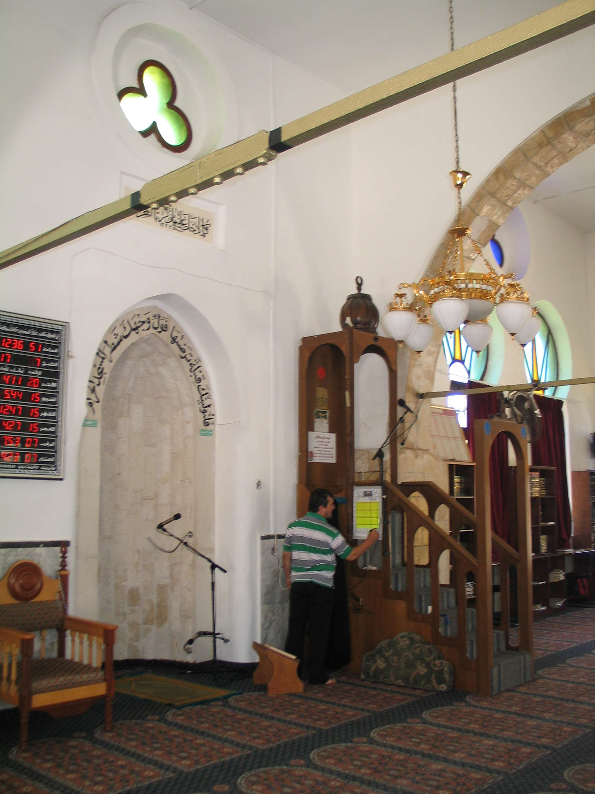 Hassan Bek mosque, Tel Aviv Yafo, Israel.